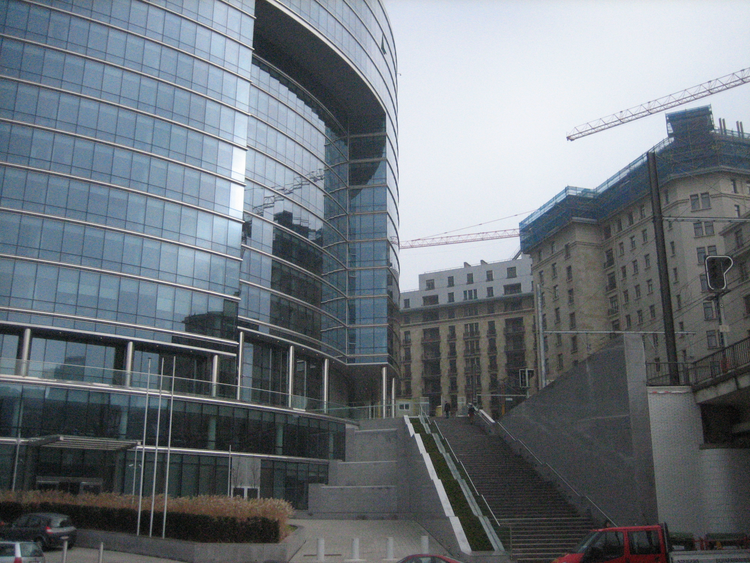 Lex building of the Council of the European Union, seen from the south.